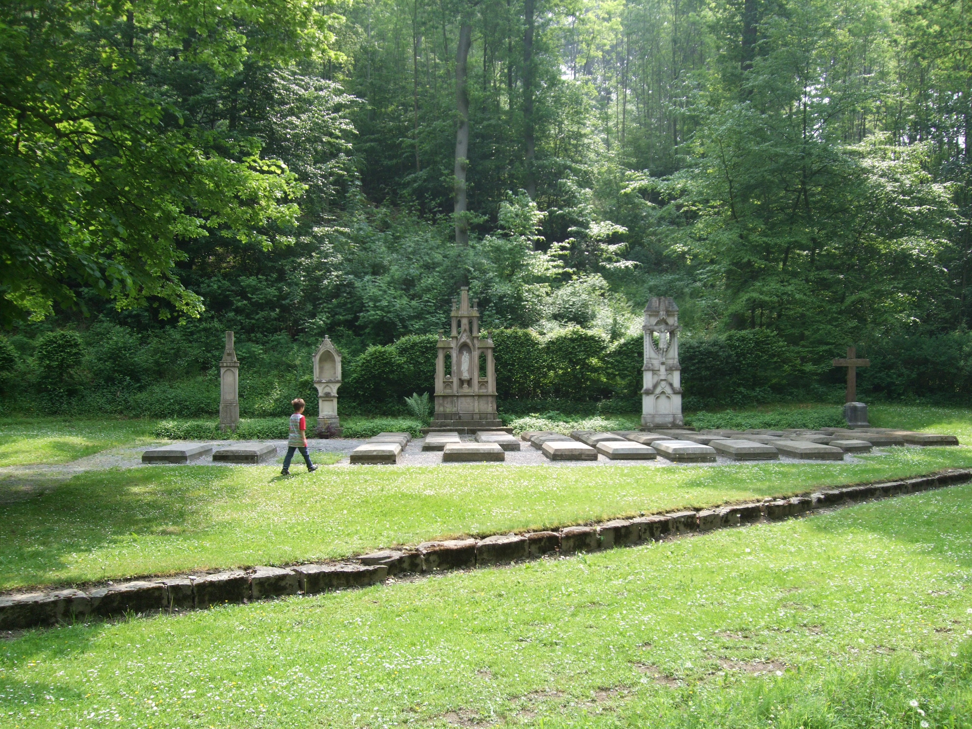 Meinolfuskapelle in Büren, Germany